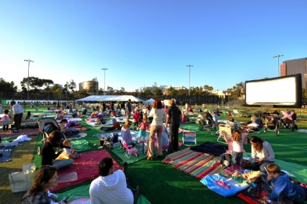 World premiere of Disney's Tinkerbell with an inflatable movie screen (AIRSCREEN)